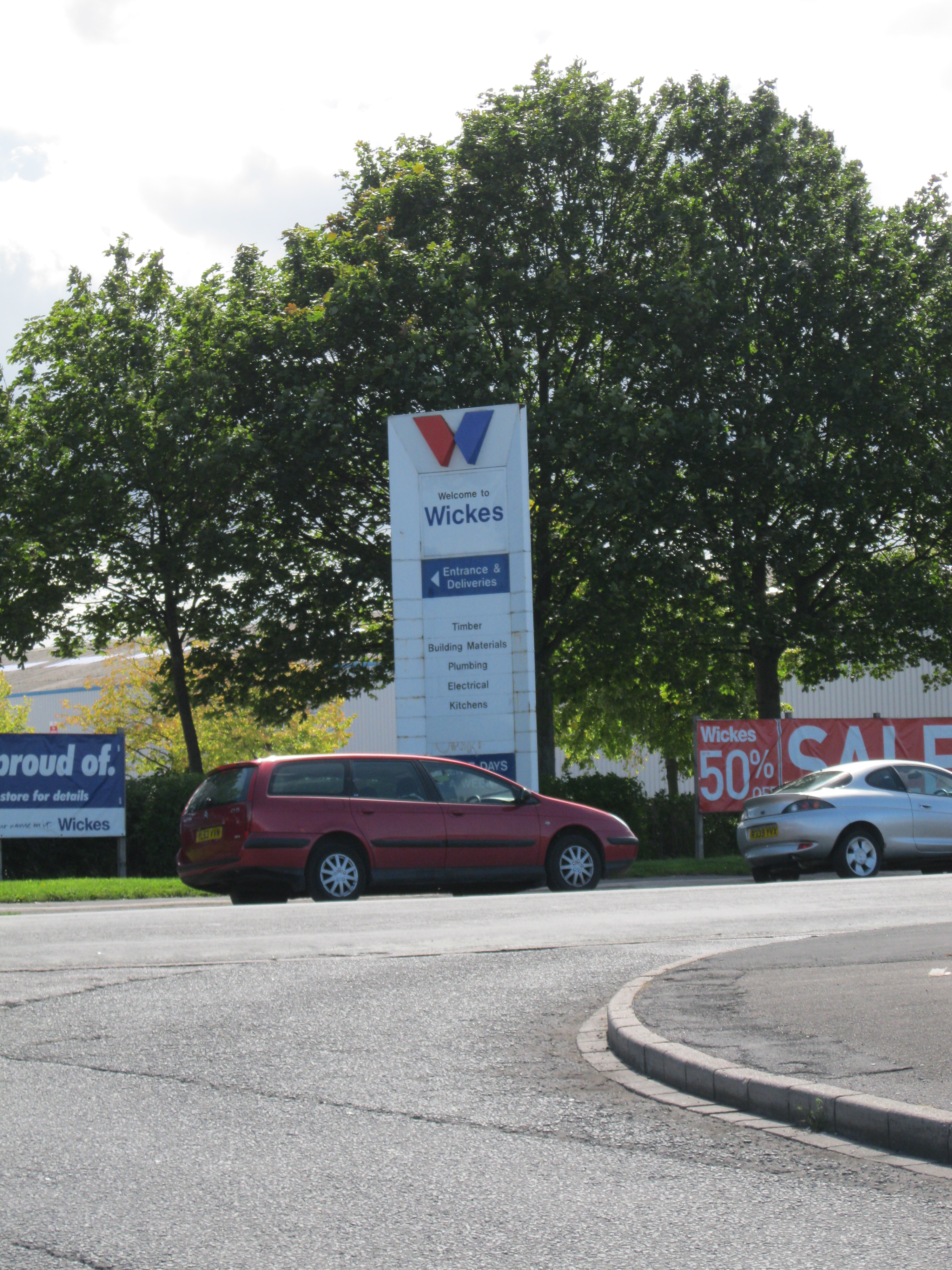 Photo of the outer sign of the Wickes Hull store